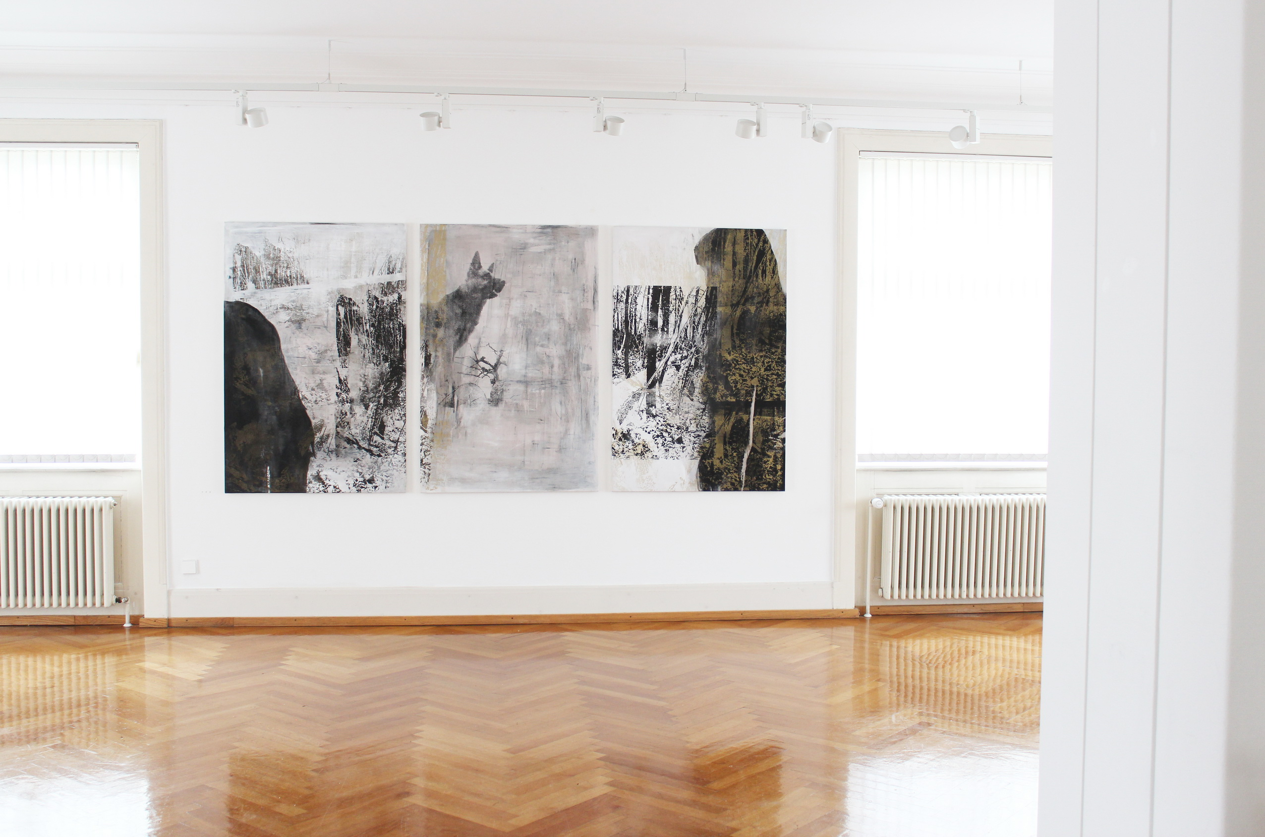 aus der Werkreihe "Waldstücke" Ausstellungsansicht in der Galerie der Stadt Wendlingen 2018